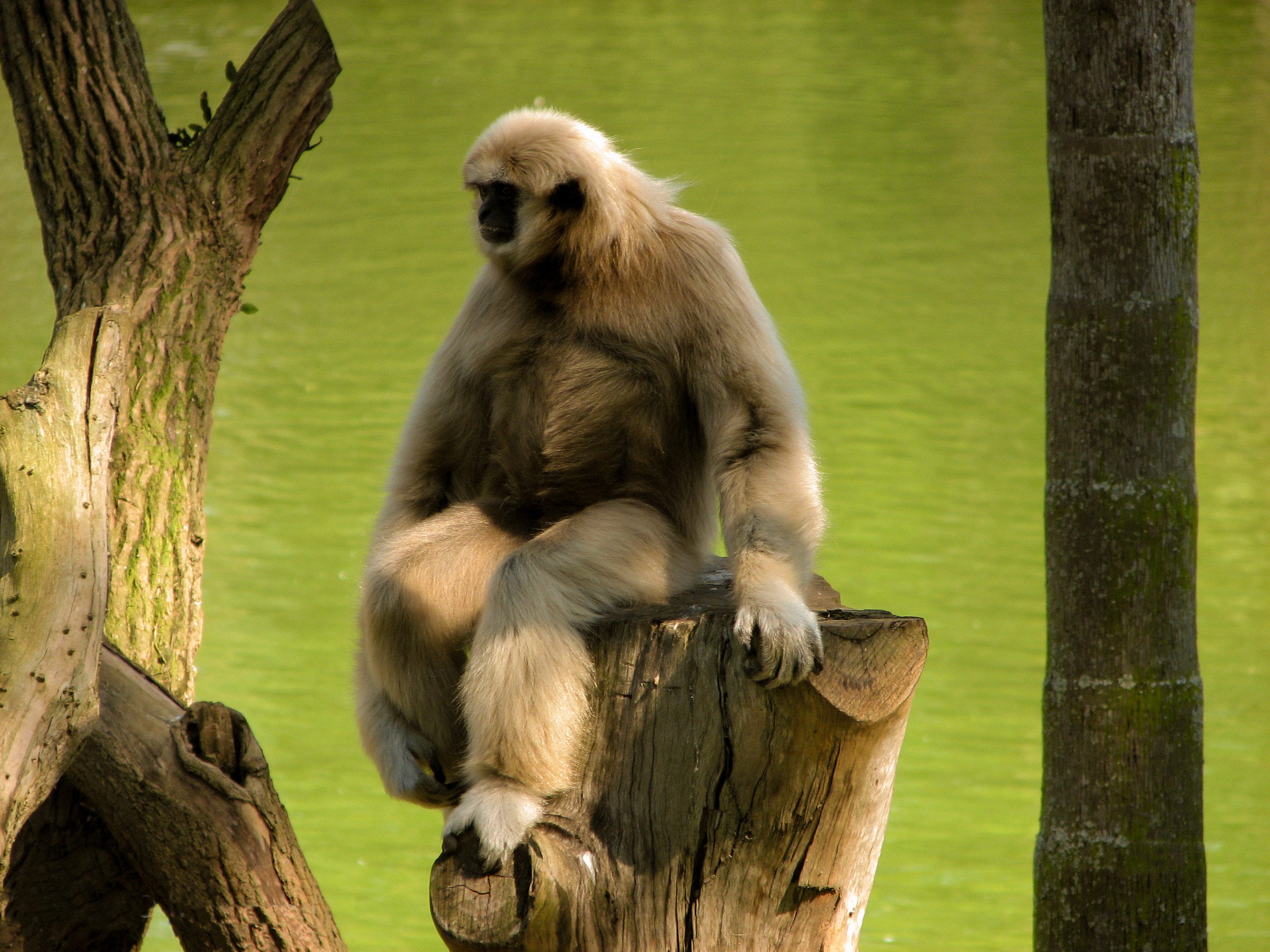 A lar gibbon (Hylobates lar) sitting on a stump over water.